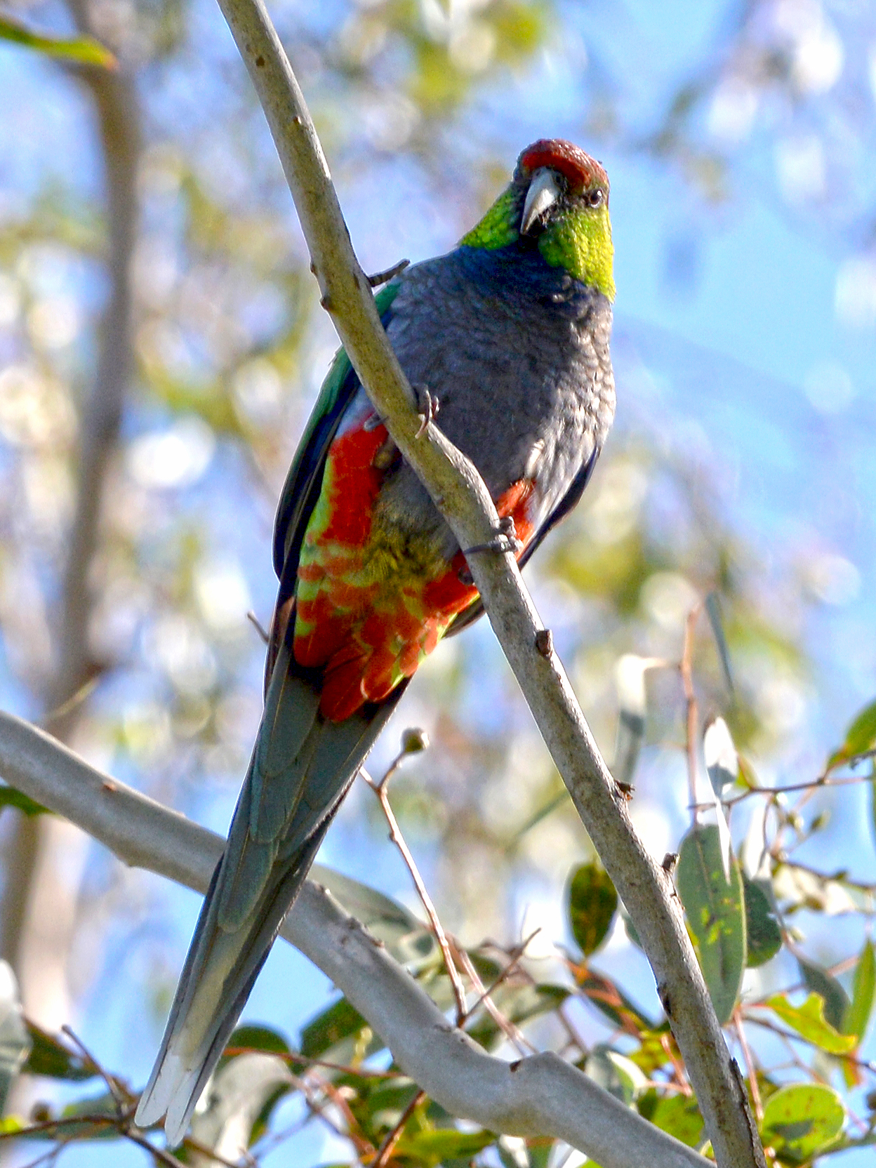 Red-capped Parrot Purpureicephalus spurius, perched high in the Eucalyptus trees. Blackadder Wetland, Swan River, Woodbridge, Western Australia. Most likely a female due to the green spotting of the red rear underparts.